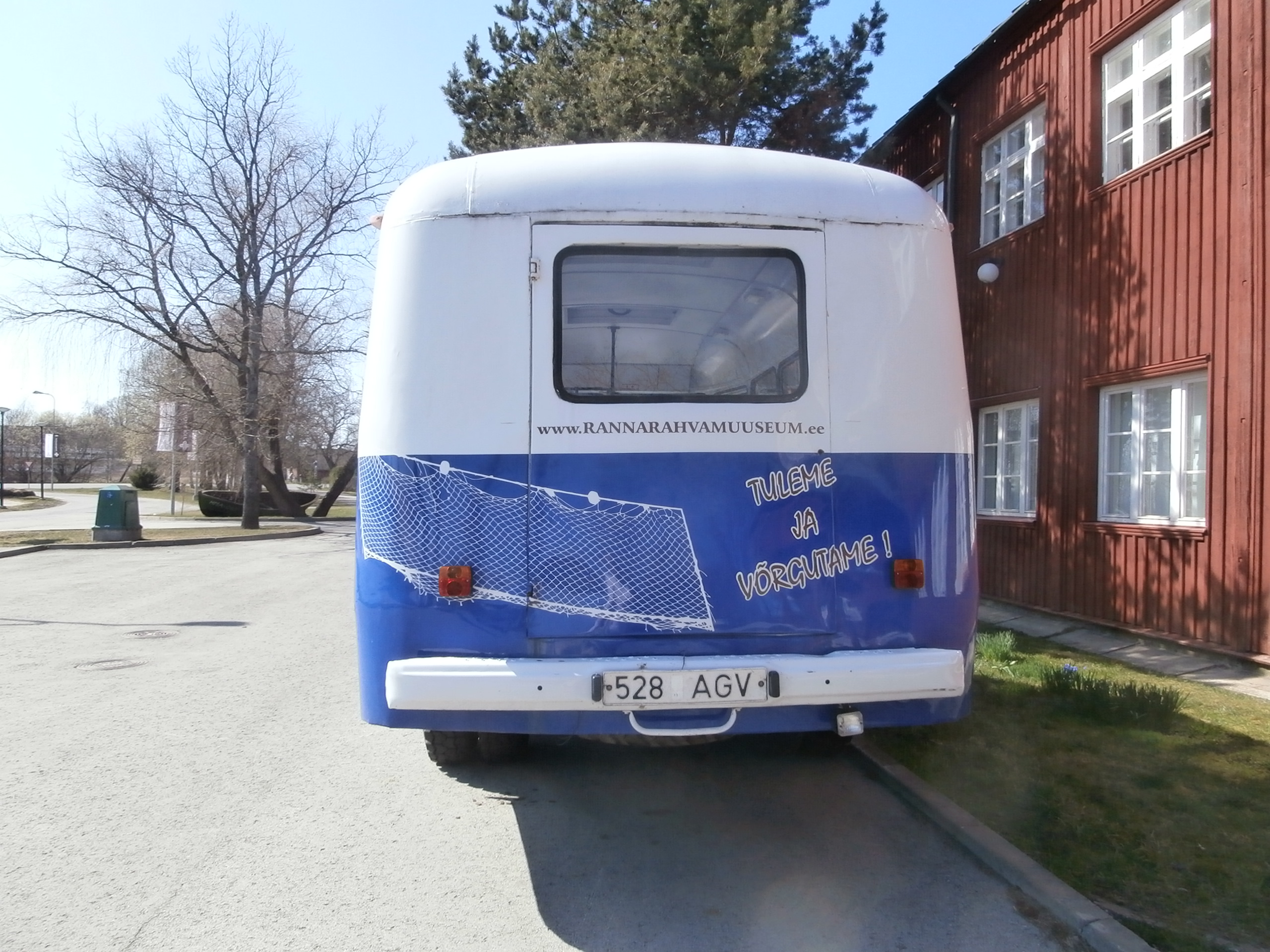 GZA-651 bus-rear Viimsi 20 April 2014